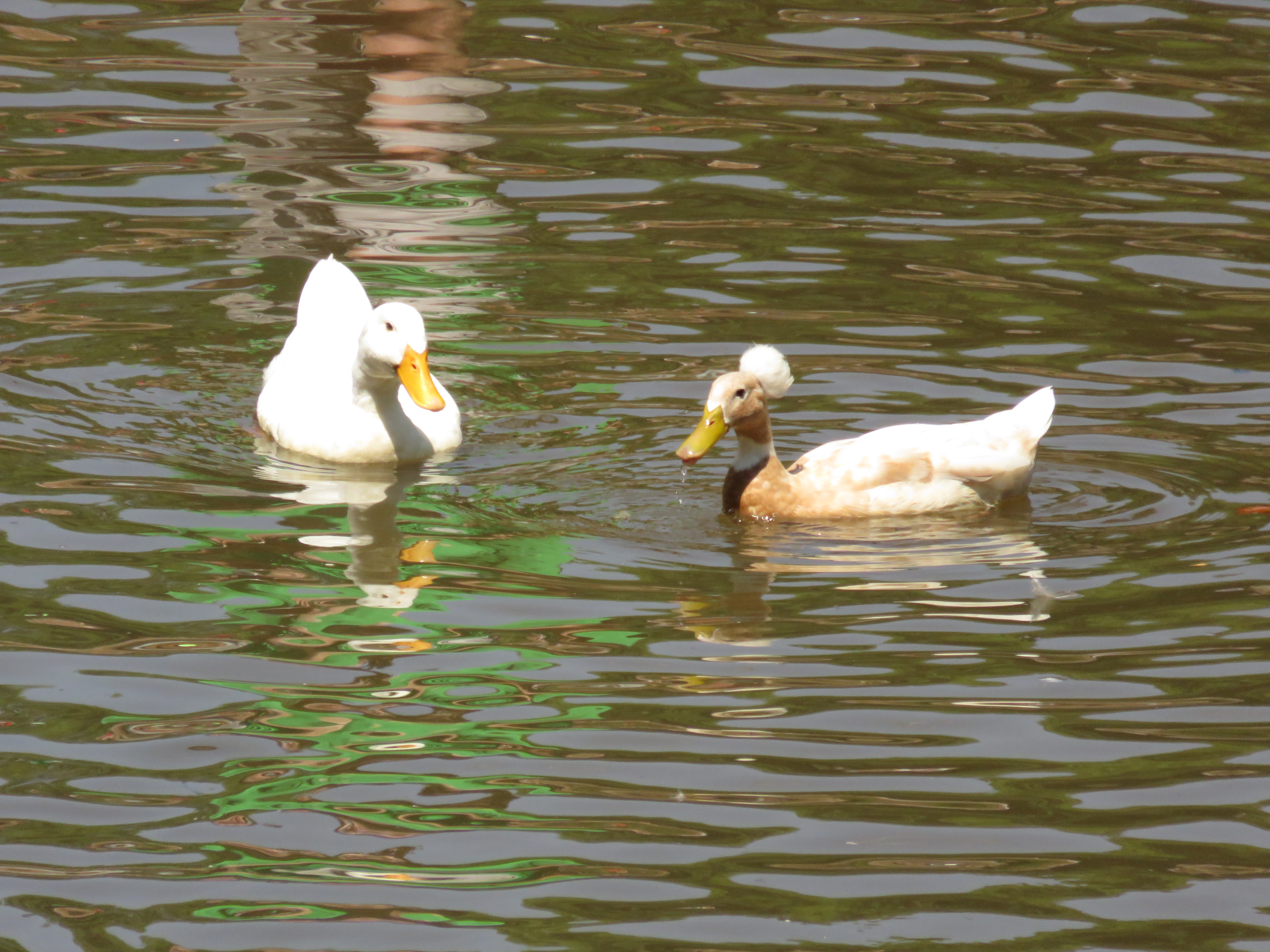 Two ducks, one a crested duck, of Falls Park on the Reedy in Greenville, South Carolina in 2017